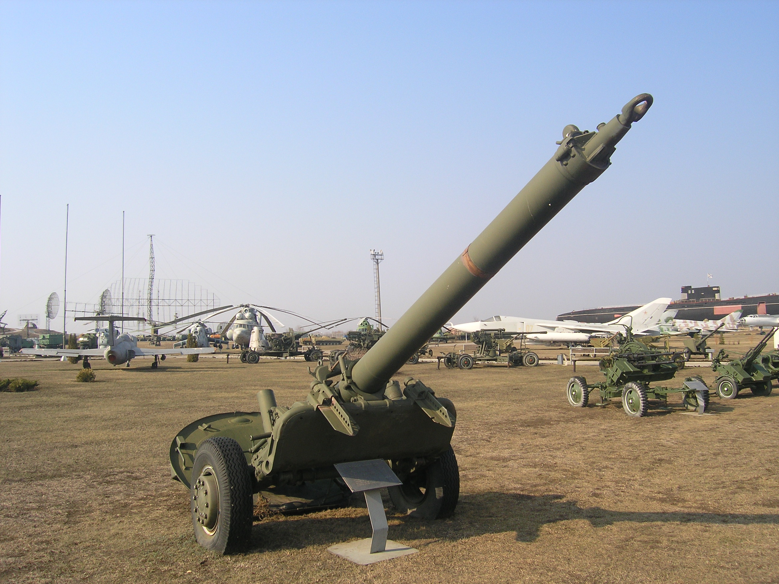 M-240 mortar in Technical museum Togliatti